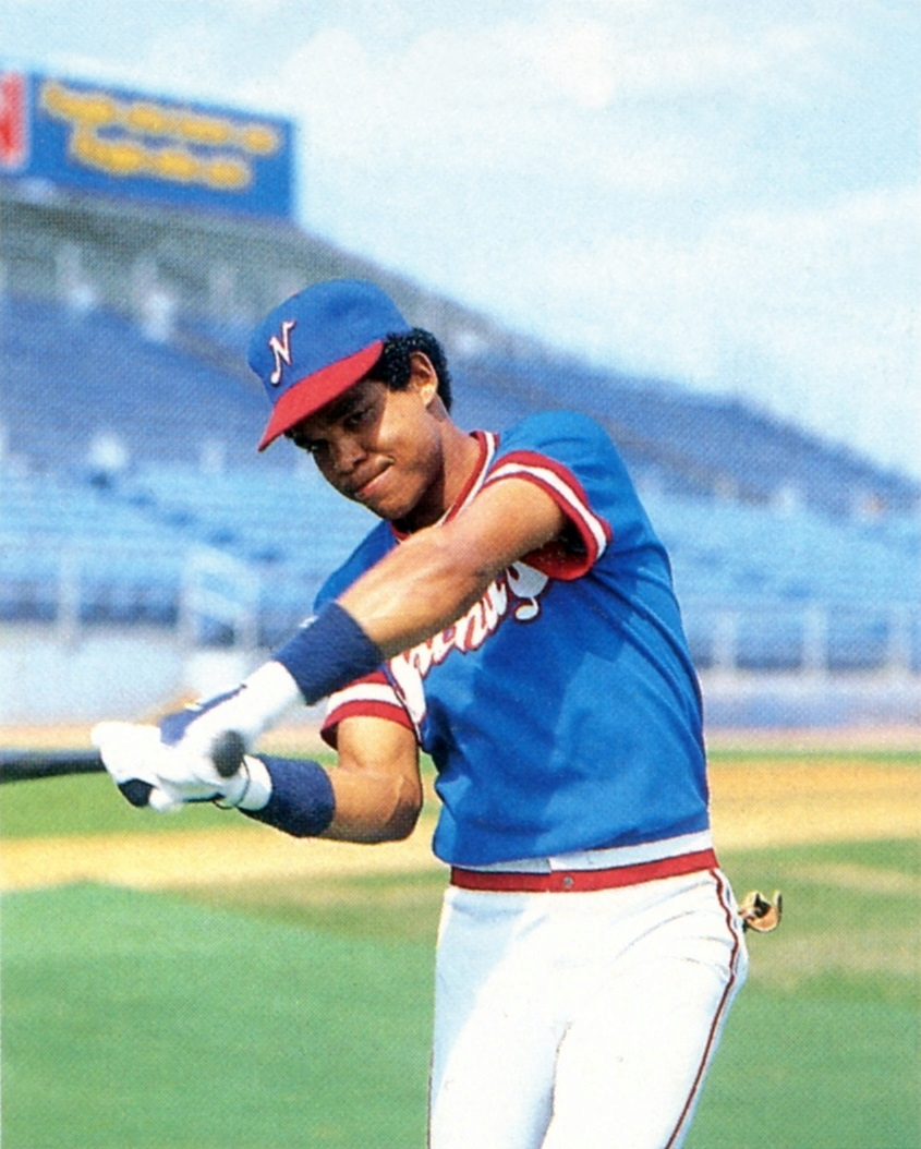 Second baseman Víctor Mata of the 1983 Nashville Sounds Minor League Baseball team of the Southern League